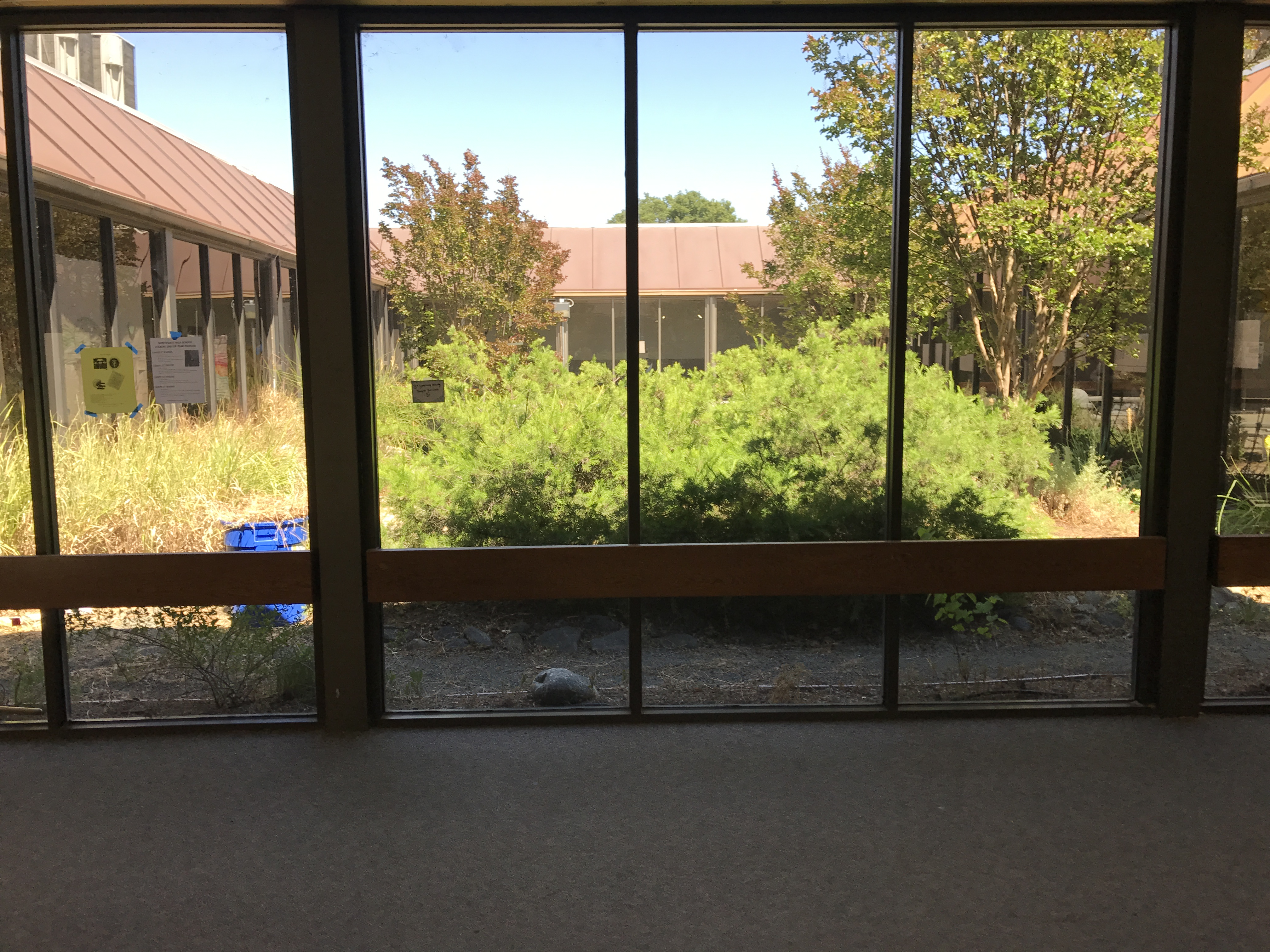 Northgate High School (Walnut Creek, Calif.), enclosed "atrium"; has been variously used as a lounge area or as a native-plant garden